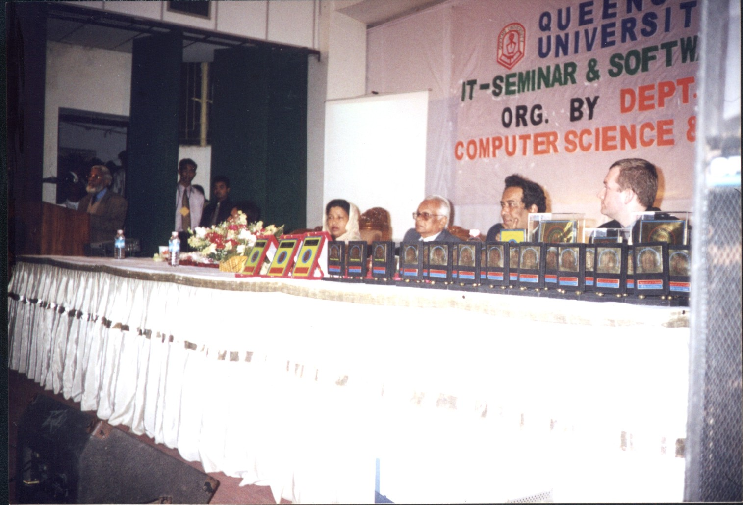 This Picture is Snapshot during the IT- Seminar & Software Exhibition organize by dept of computer Science & Engineering in the dated 5.2.2002.